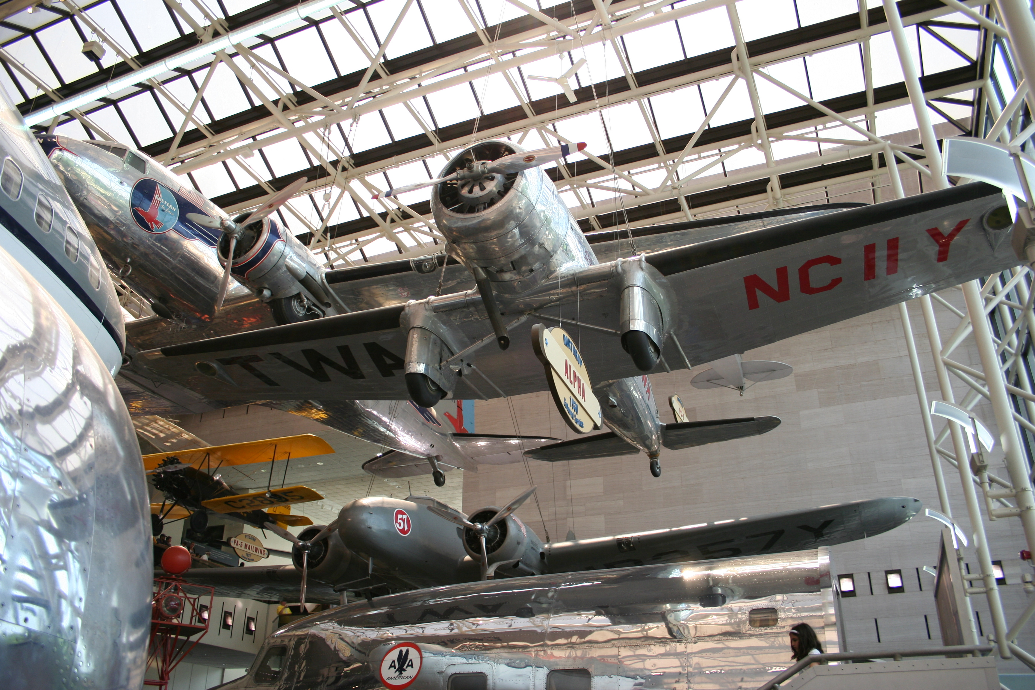 Under the Northrop Alpha, tail number NC11Y, at the National Air and Space Museum.